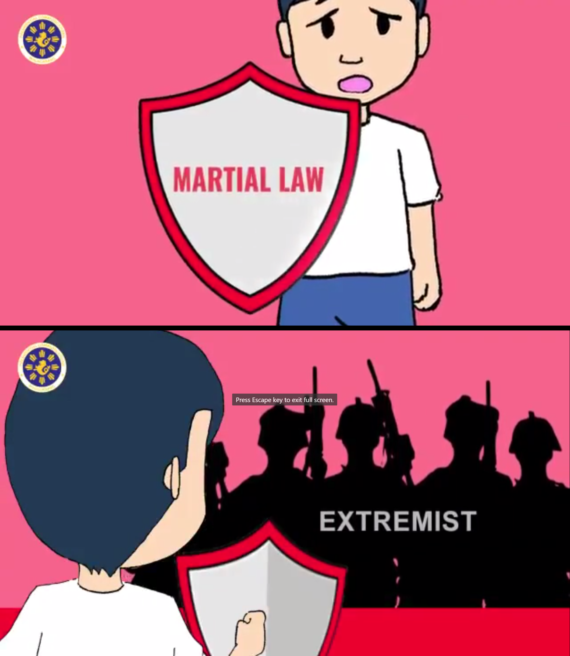 Screen capture of propaganda video promoting martial law by the Philippine Presidential Communications Operations Office of Rodrigo Duterte